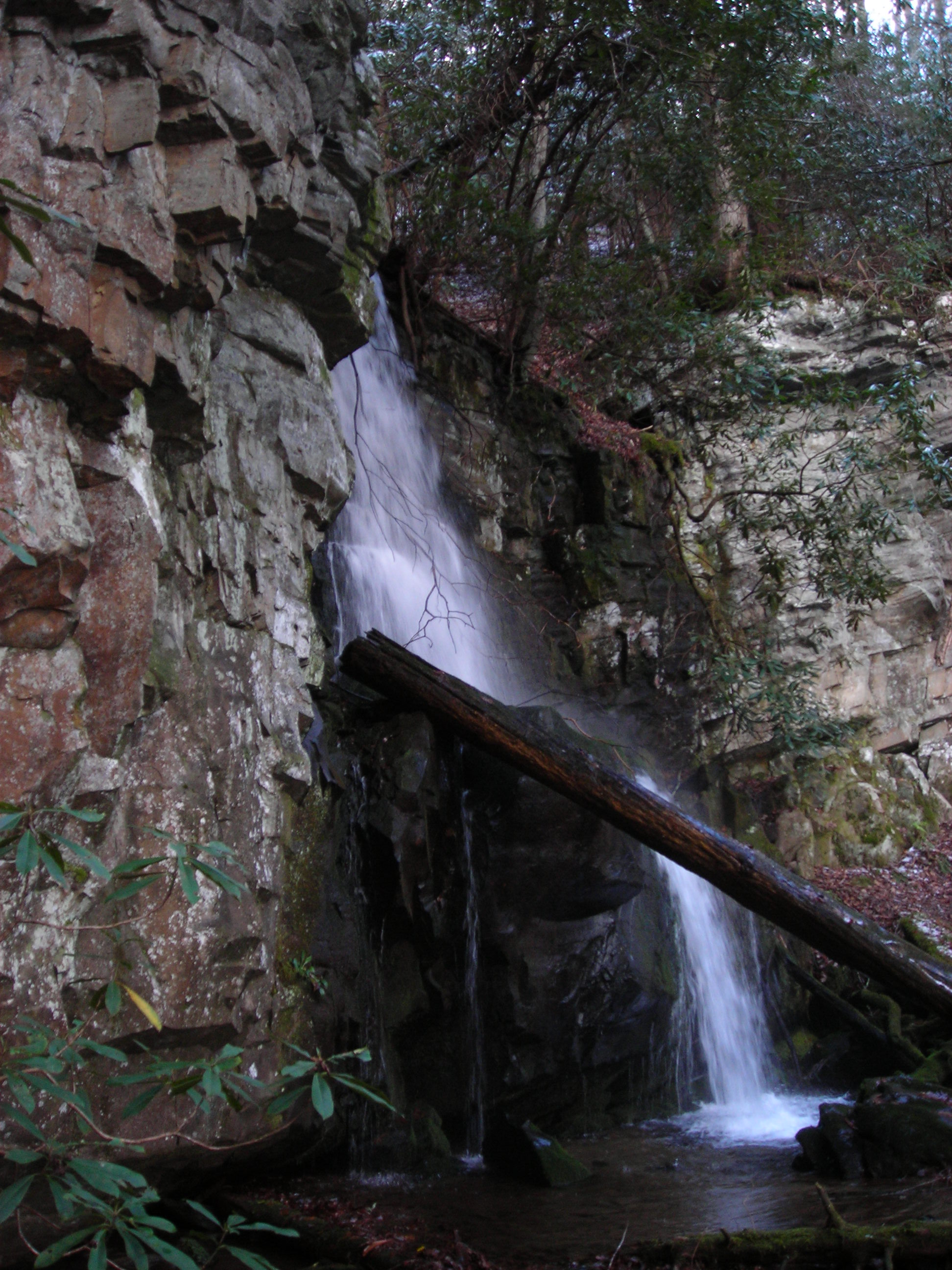 Baskins Creek Falls is a waterfall in the Great Smoky Mountains National Park; it is shown here in November 2006.